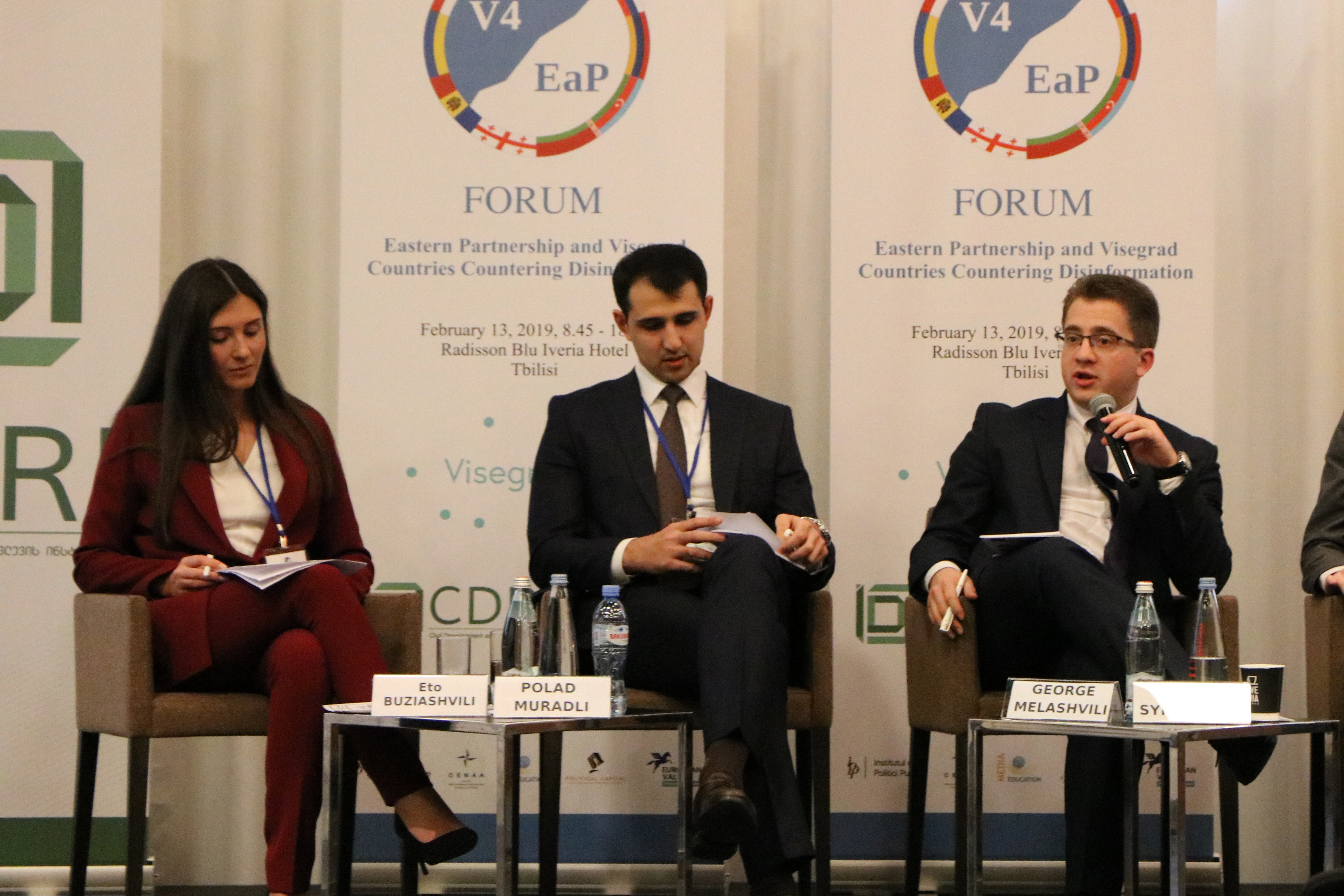 The forum Eastern Partnership and Visegrad Countries Countering Disinformation took place on 13 February 2019. The Europe-Georgia Institute organized the forum in cooperation with the Civil Development and Research Institute with financial support from Visegrad Fund. On the picture, from left to right: Eto Buziashvili, International Security Expert, (Georgia); Polad Muradli, Baku-based Independent Expert (Azerbaijan); George Melashvili, President of the Europe-Georgia Institute (Georgia).